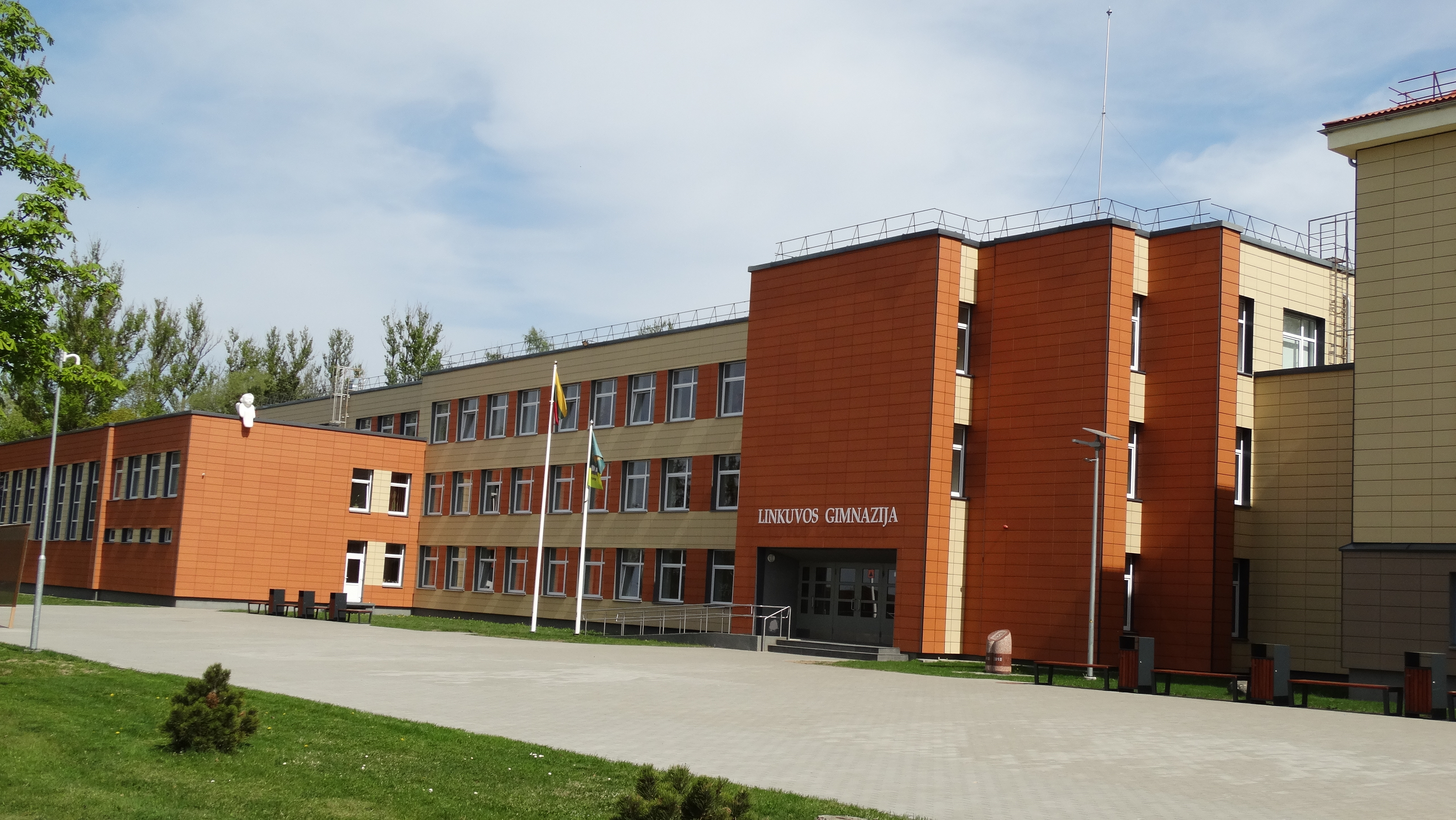 Linkuva, gymnasium, Pakruojis District, Lithuania